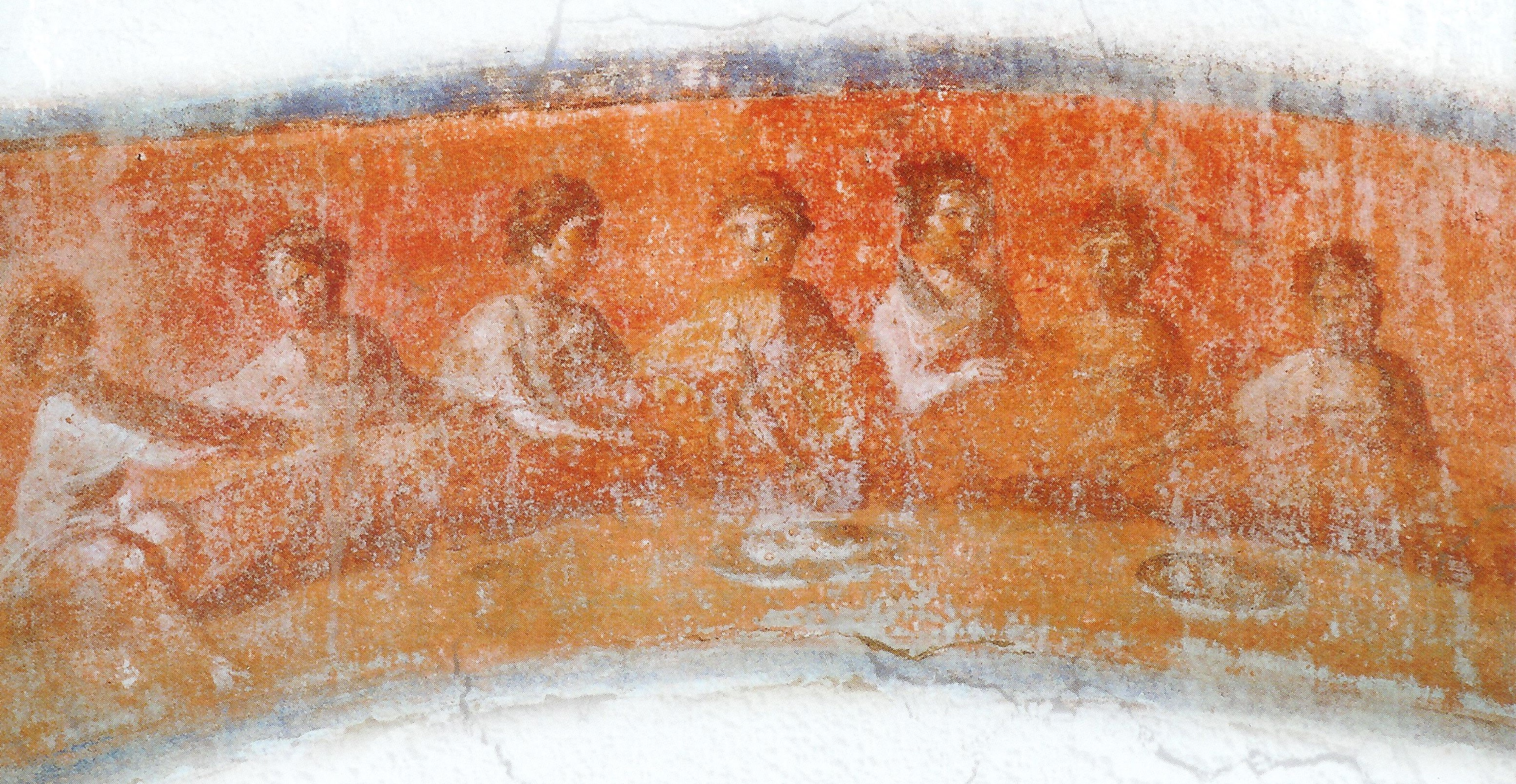 Fresco of a Christian Agape feast showing the fractio panis, the breaking of the bread during the meal of Holy Communion. Greek chapel, Catacombe di Priscilla, Rome. 2nd - 4th century.